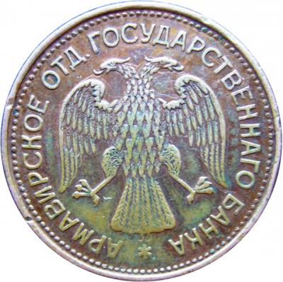 Armavir 1 rouble coin, second issue (1918), reverse